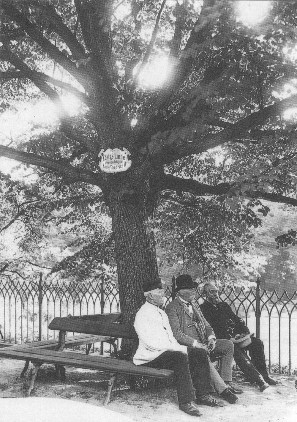 visitors of Invalidenfriedhof cemetery in Berlin in 1897; the plaque dedicates the linden tree to King Fredrick II. of Prussia